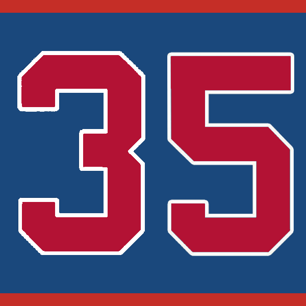 Illustration of Phil Niekro's Retired Braves Number